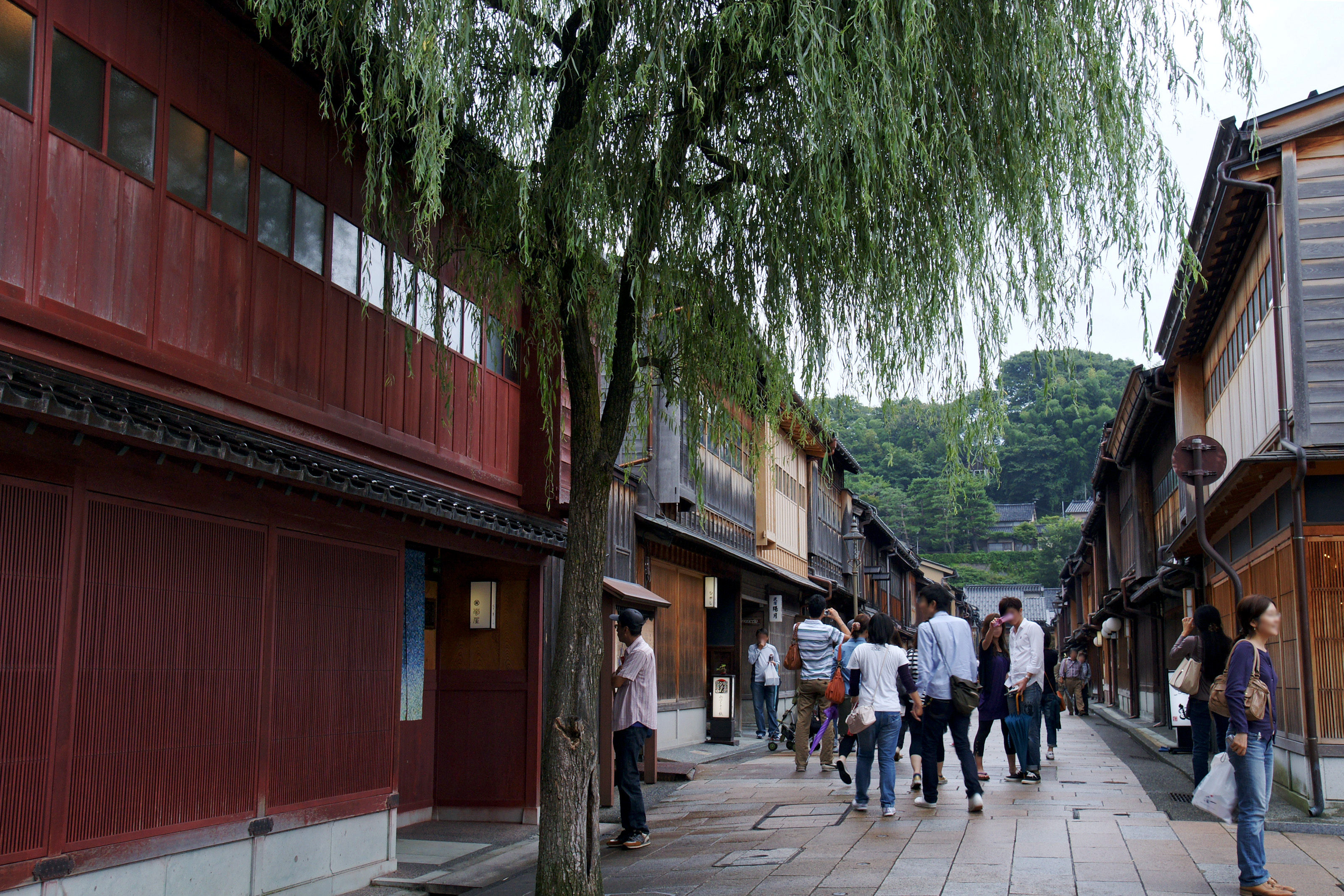 Higashiyama-higashi in Kanazawa, Ishikawa prefecture, Japan